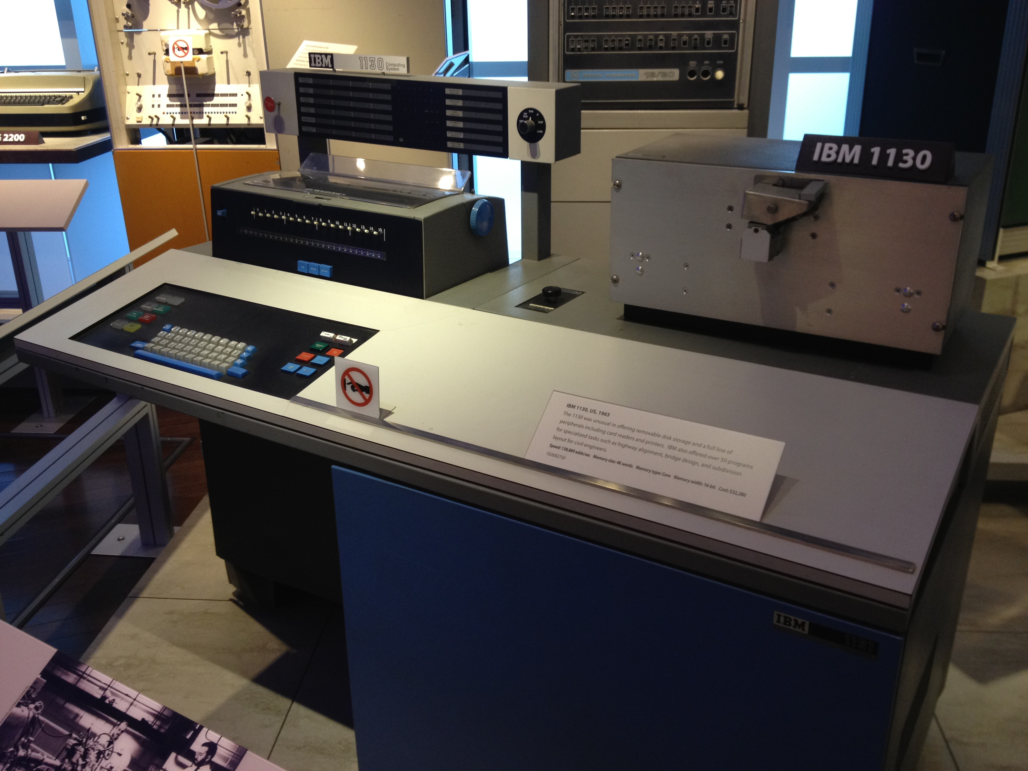 An IBM 1130 at the Computer History Museum